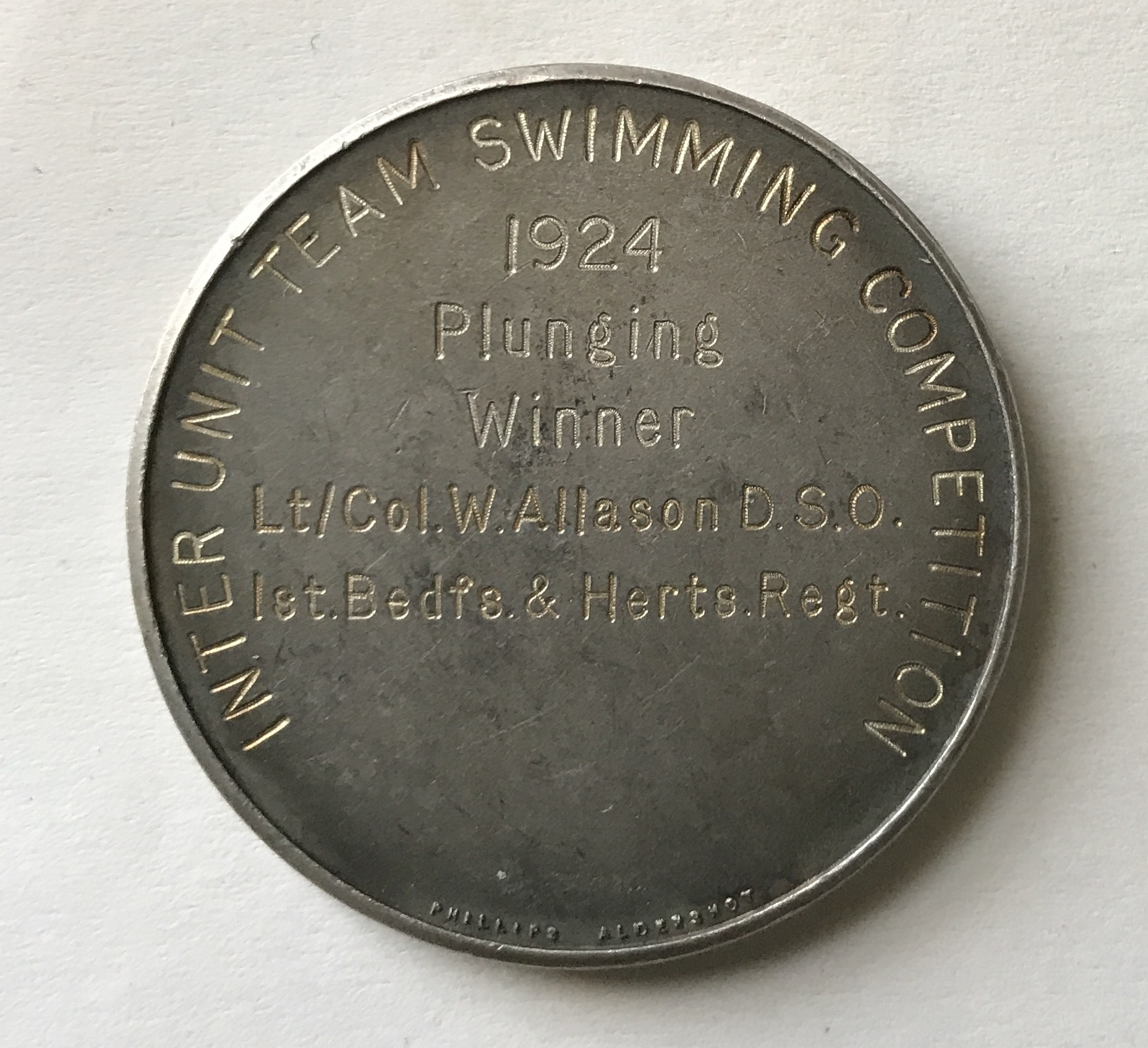 Diving medal awarded to Lt-Col Walter Allason DSO (1875-1960) at Aldershot in 1924